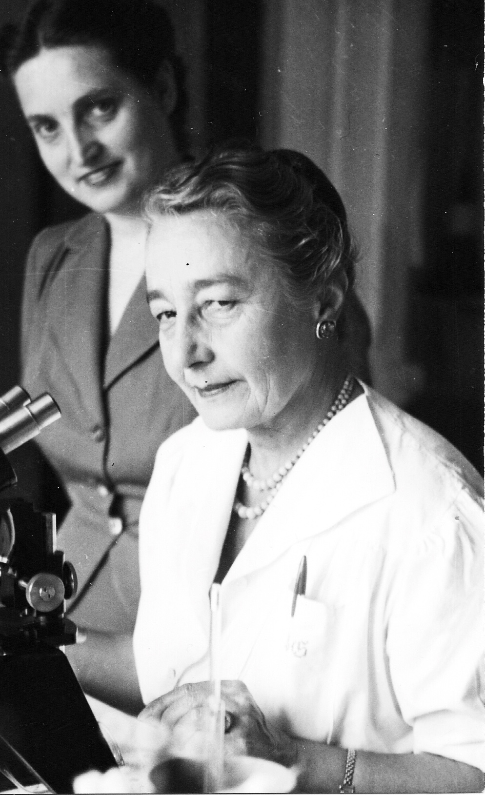 Hélène Sparrow (5 June 1891 – 13 November 1970) was a pioneer in world public health, a medical doctor and microbiologist. She was noted for her work to control typhus in Poland after the First World War and then leading national programmes of vaccination against diphtheria, scarlet fever, spotted fever and relapsing fever in Poland and Tunisia into the 1960s.[1]